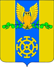 Coat of arms of Vostochni Sosyk, Tbiliskaya Raion, Krasnodar Krai, Russia.